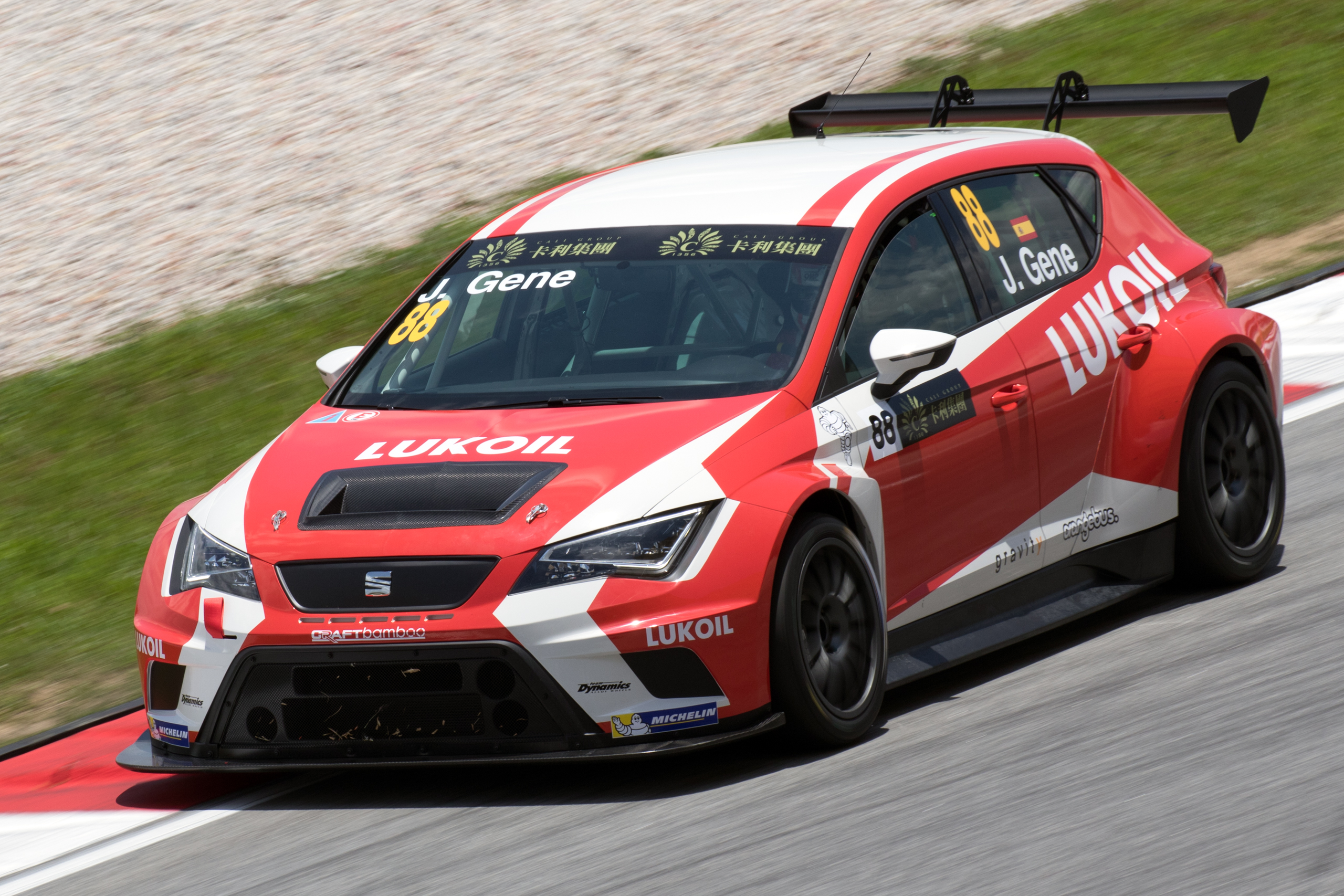 TCR International Series 2015 Rd.1 Malaysia: Jordi Gené (Bamboo)